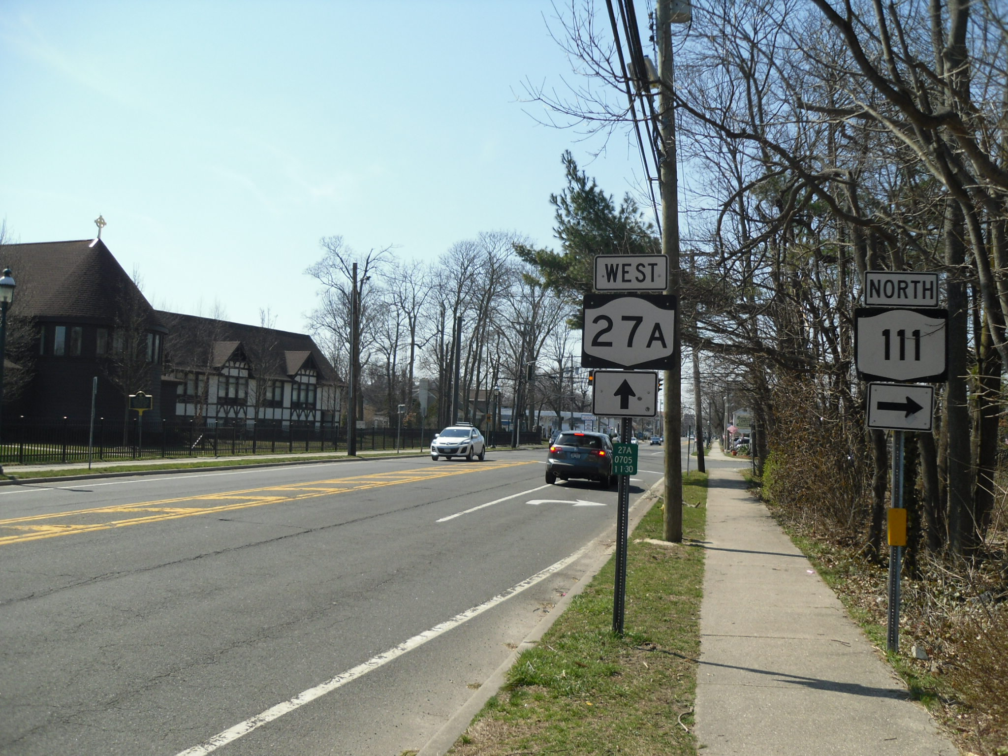 New York State Route 27A westbound at the southern terminus of New York State Route 111 in Islip, New York.